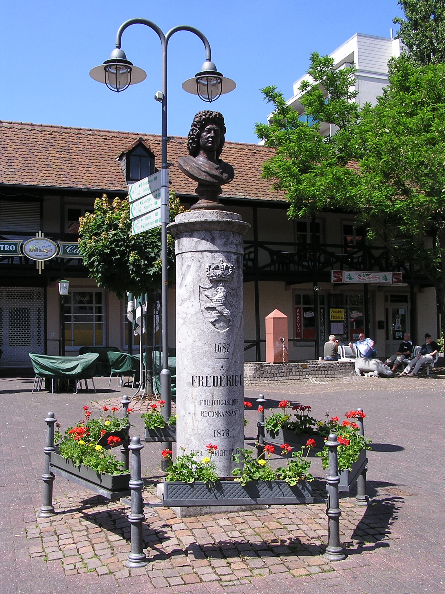 Monument with bust of Friedrich IInd of Hesse-Homburg at the Landgrafenplatz in Friedrichsdorf